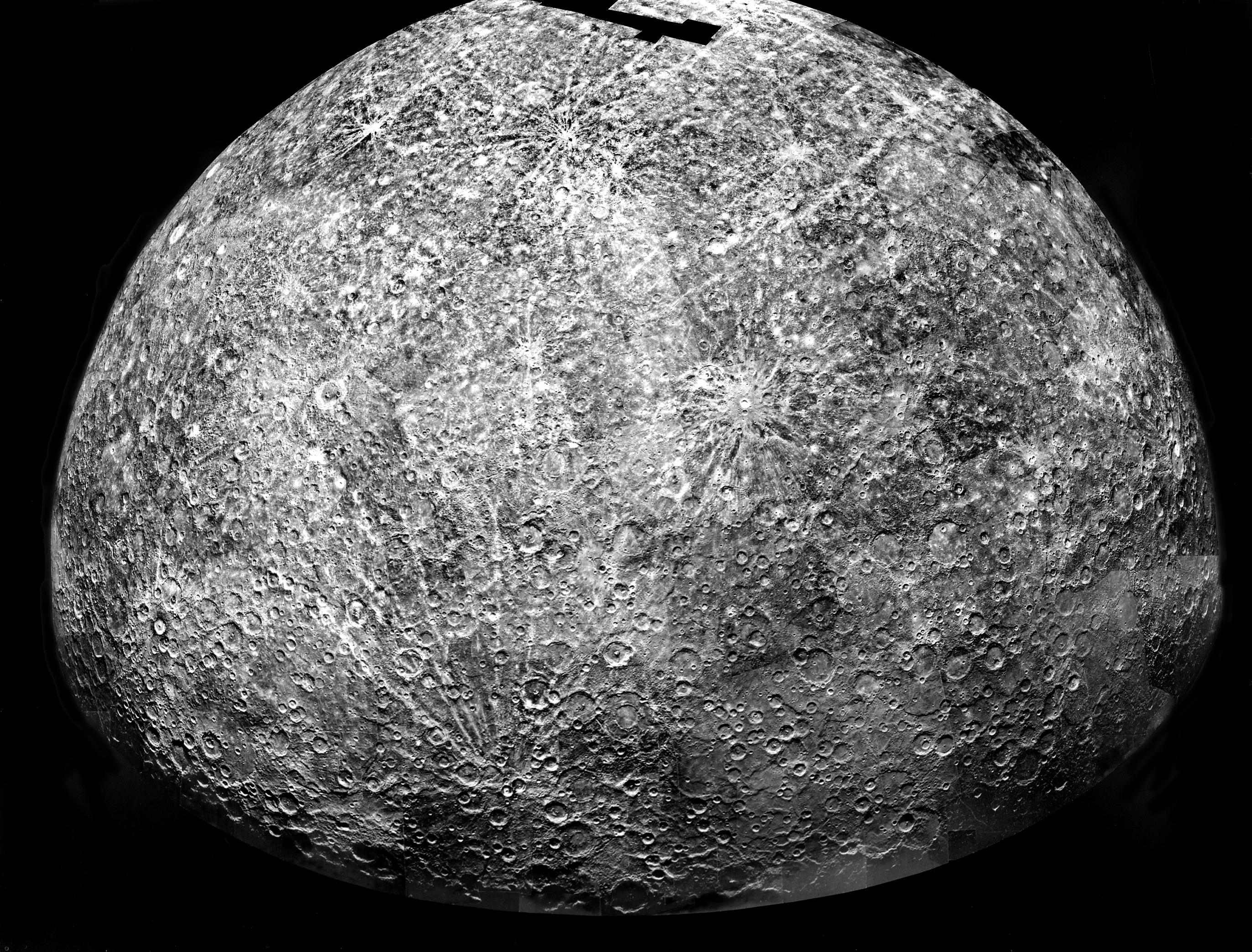 The Mariner 10 spacecraft was launched in 1974. The spacecraft took images of Venus in February 1974 on the way to three encounters with Mercury in March and September 1974 and March 1975. The spacecraft took more than 7,000 images of Mercury, Venus, the Earth and the Moon during its mission. The Mariner 10 Mission was managed by the Jet Propulsion Laboratory for NASA's Office of Space Science in Washington, D.C